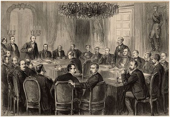 Brussels Conference of 1874 in session